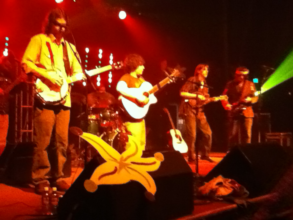 Mountain Standard Time Mardi Grass 2011